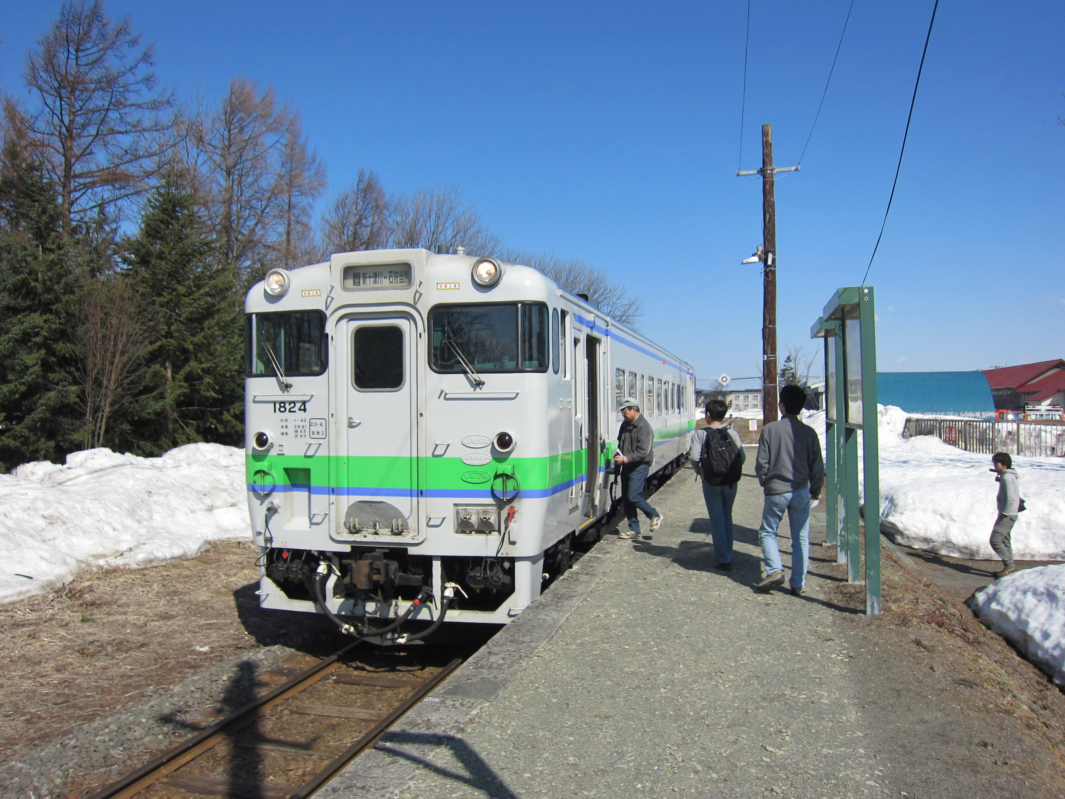 A JR Hokkaido KiHa 40 series DMU car at Shin-Totsukawa Station